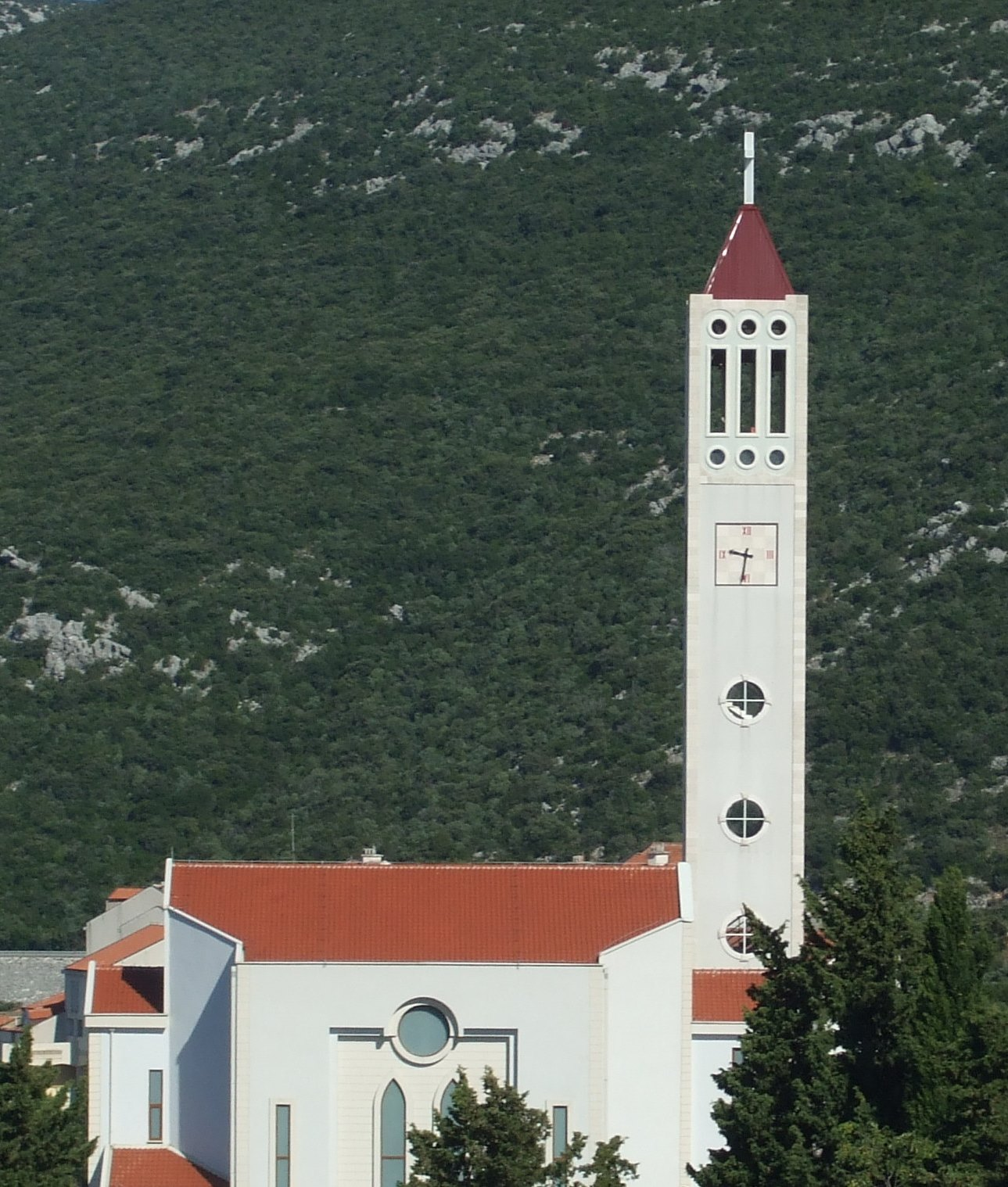 St. John's church in Neum